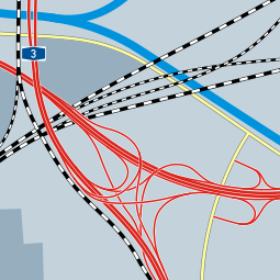 Interchange Kaiserberg